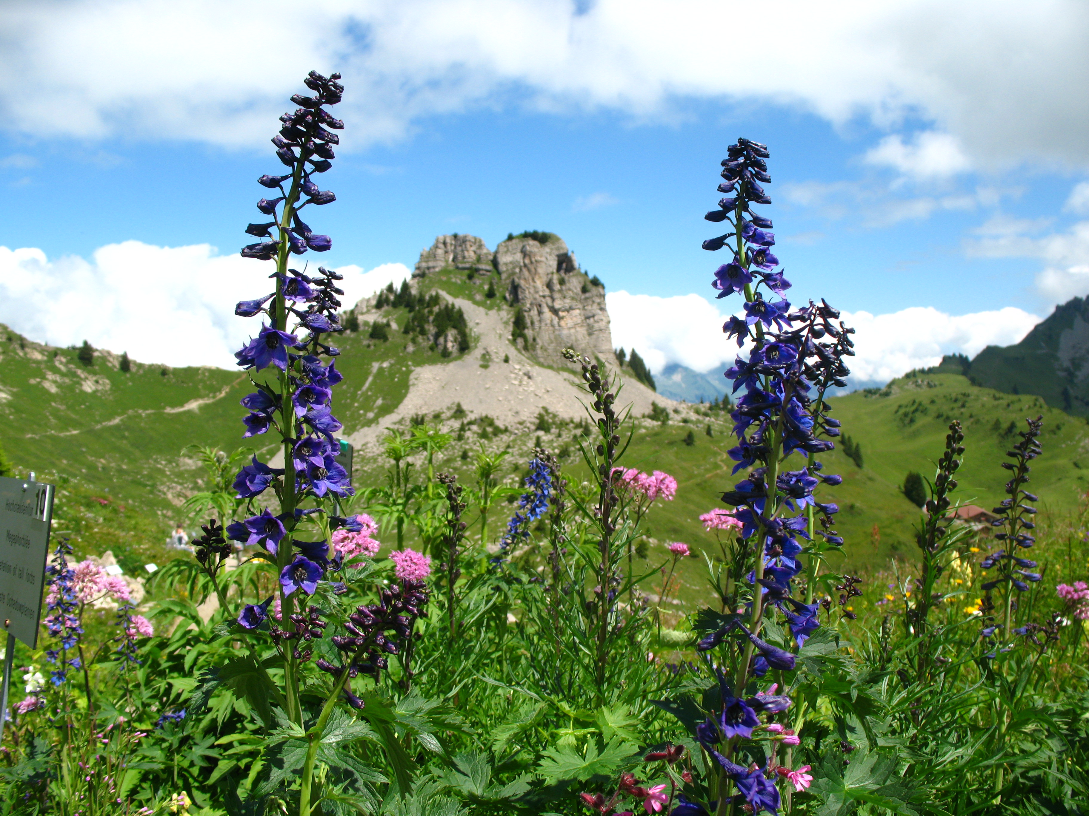 Delphinium and Oberberghorn viewed from Schynige Platte, Switzerland